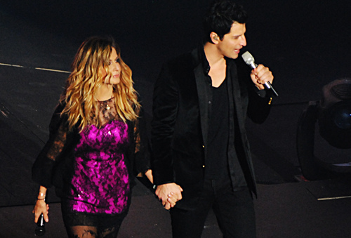 Greek-Cypriot singer Anna Vissi and Greek singer Sakis Rouvas live on stage at Athinon Arena in Athens, Greece on January 1, 2011.